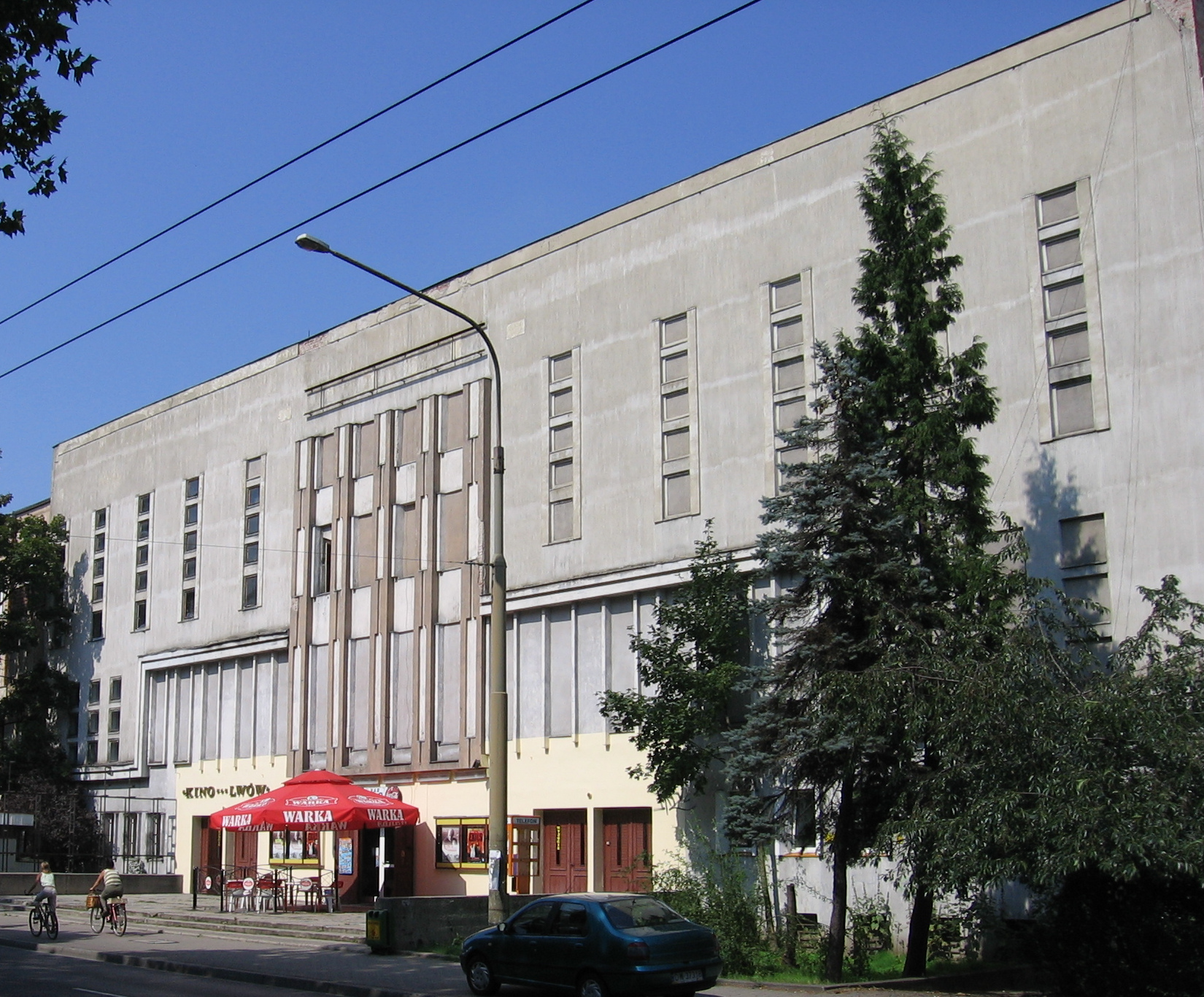 Wrocław, "Lwów" cinema, built in 1926 by Adolf Rading for the Odd Fellow Lodge